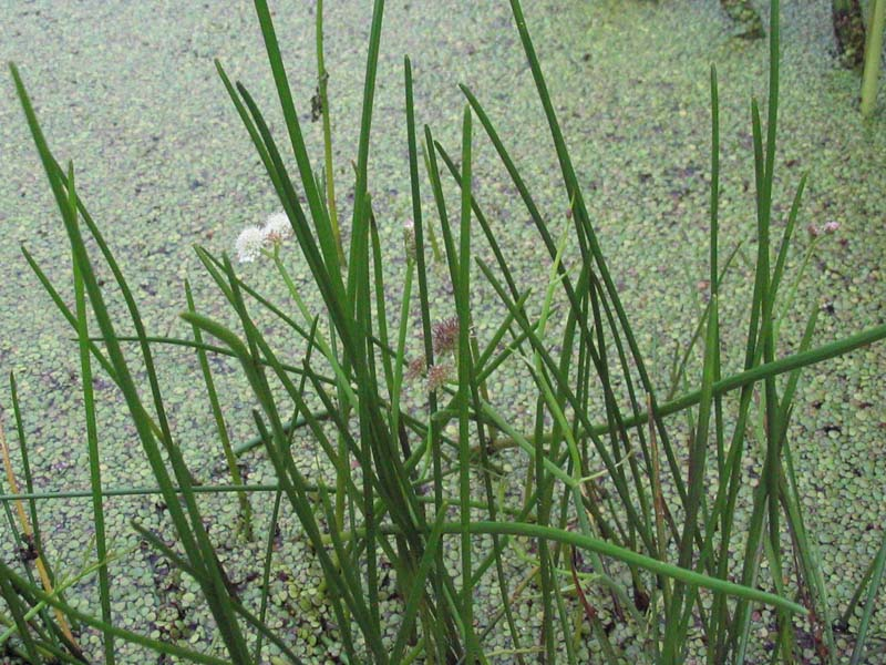 Tubular Water-dropwort, Oenanthe fistulosa, flowering and fruiting. Note: The long, dark-green leaves, which dominate the photo, don't belong to Oenanthe fistulosa. (That are probably plants of Eleocharis palustris agg.?)